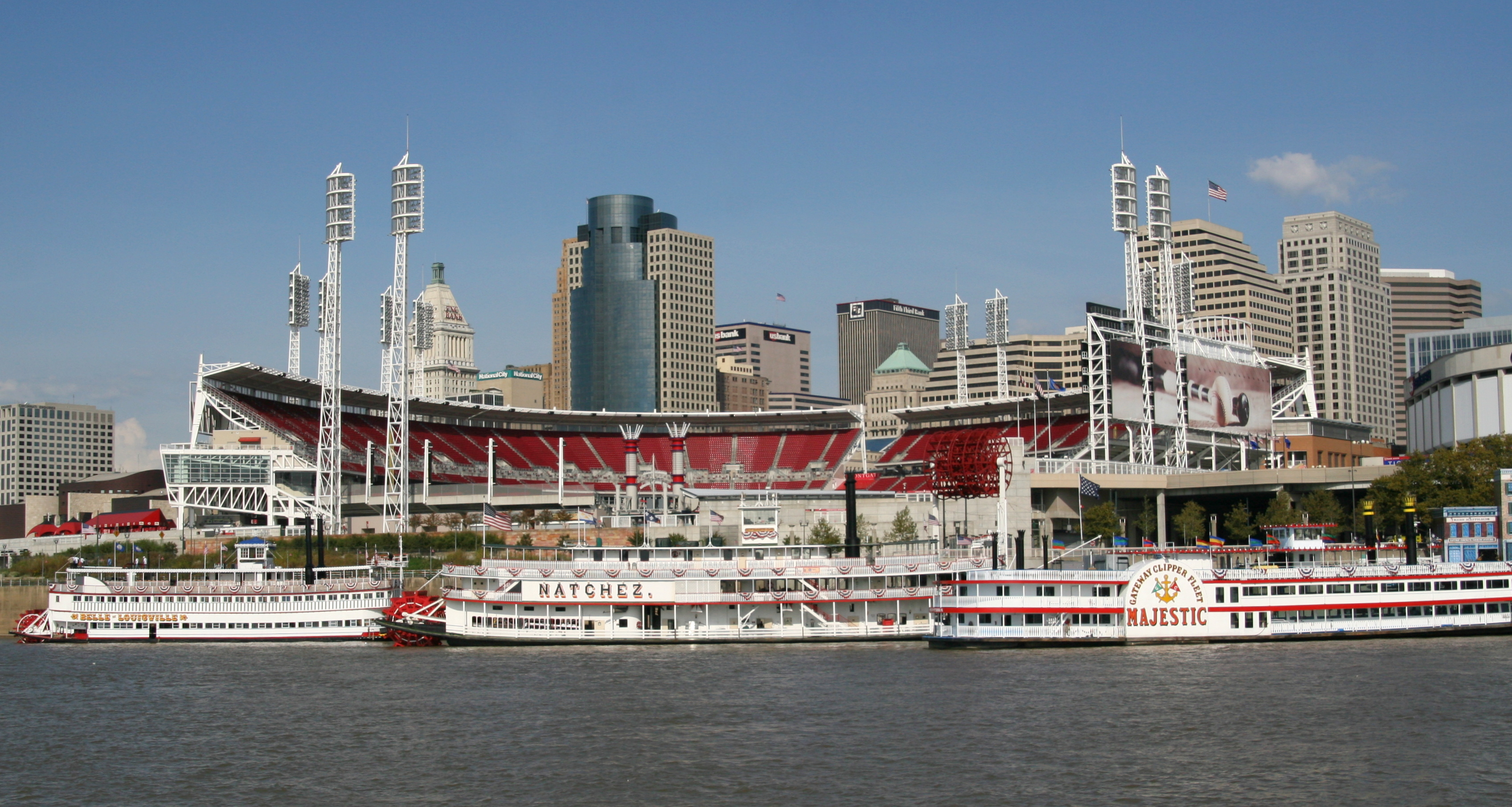 Riverboats at the 2006 Tall Stacks Festival.